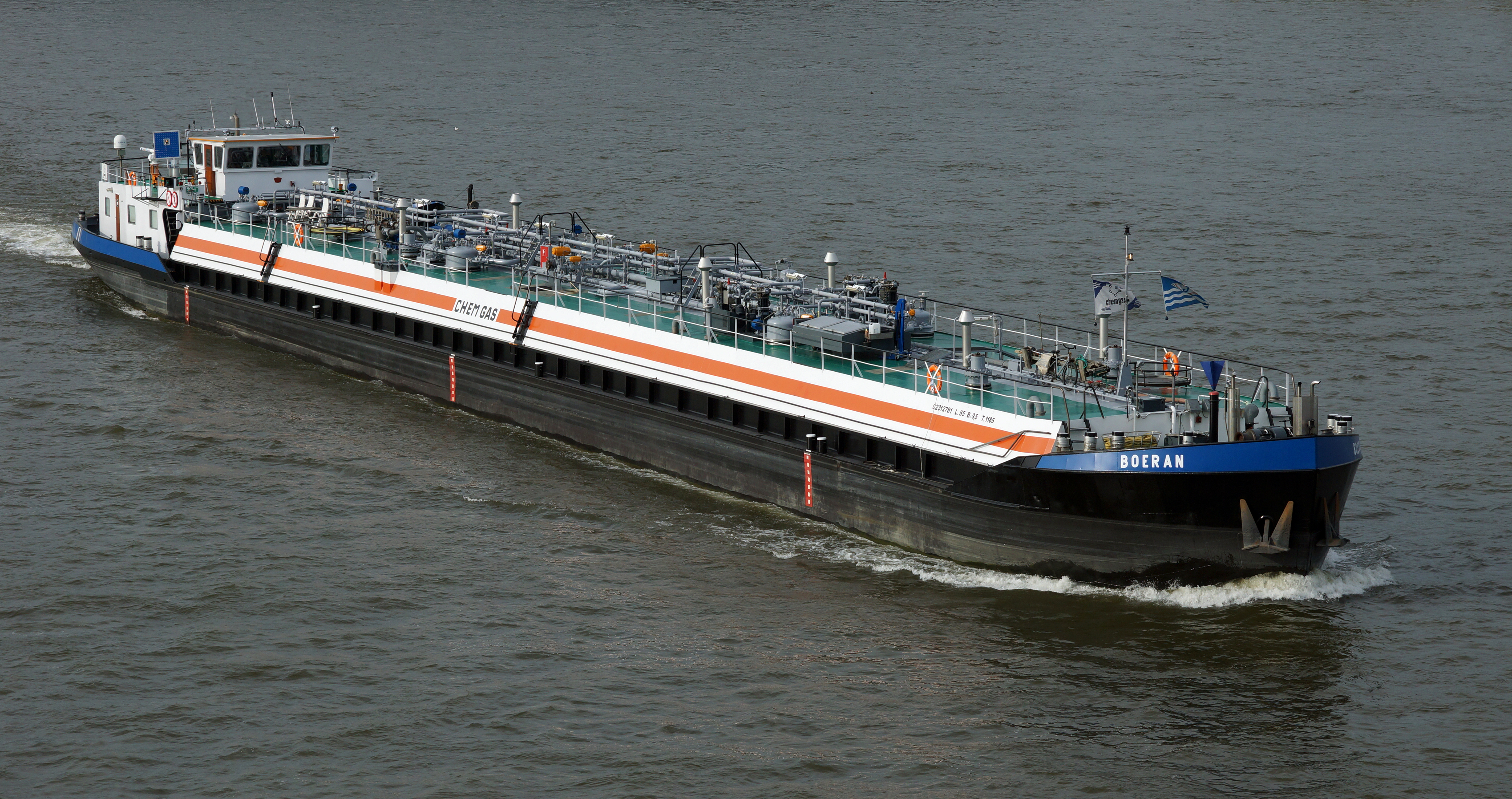 Tank barge Boeran in Cologne.